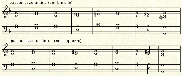 examples of passamezzo harmonic formulas